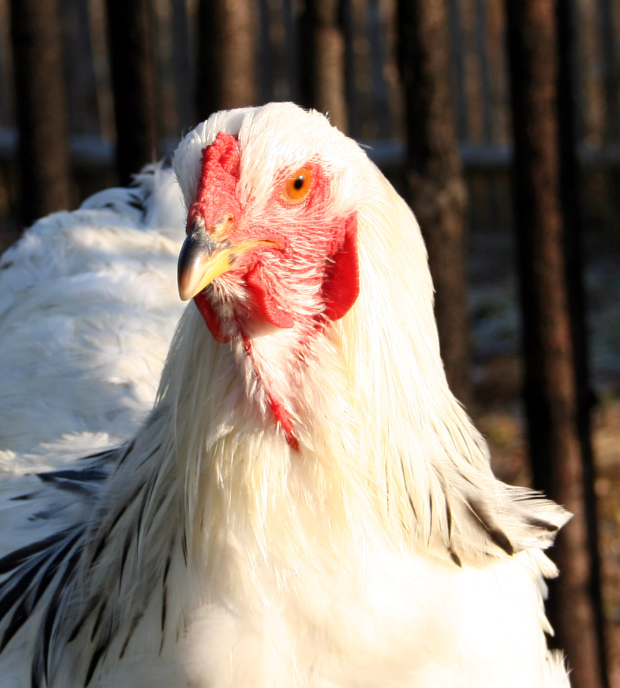 Brahma (chicken)